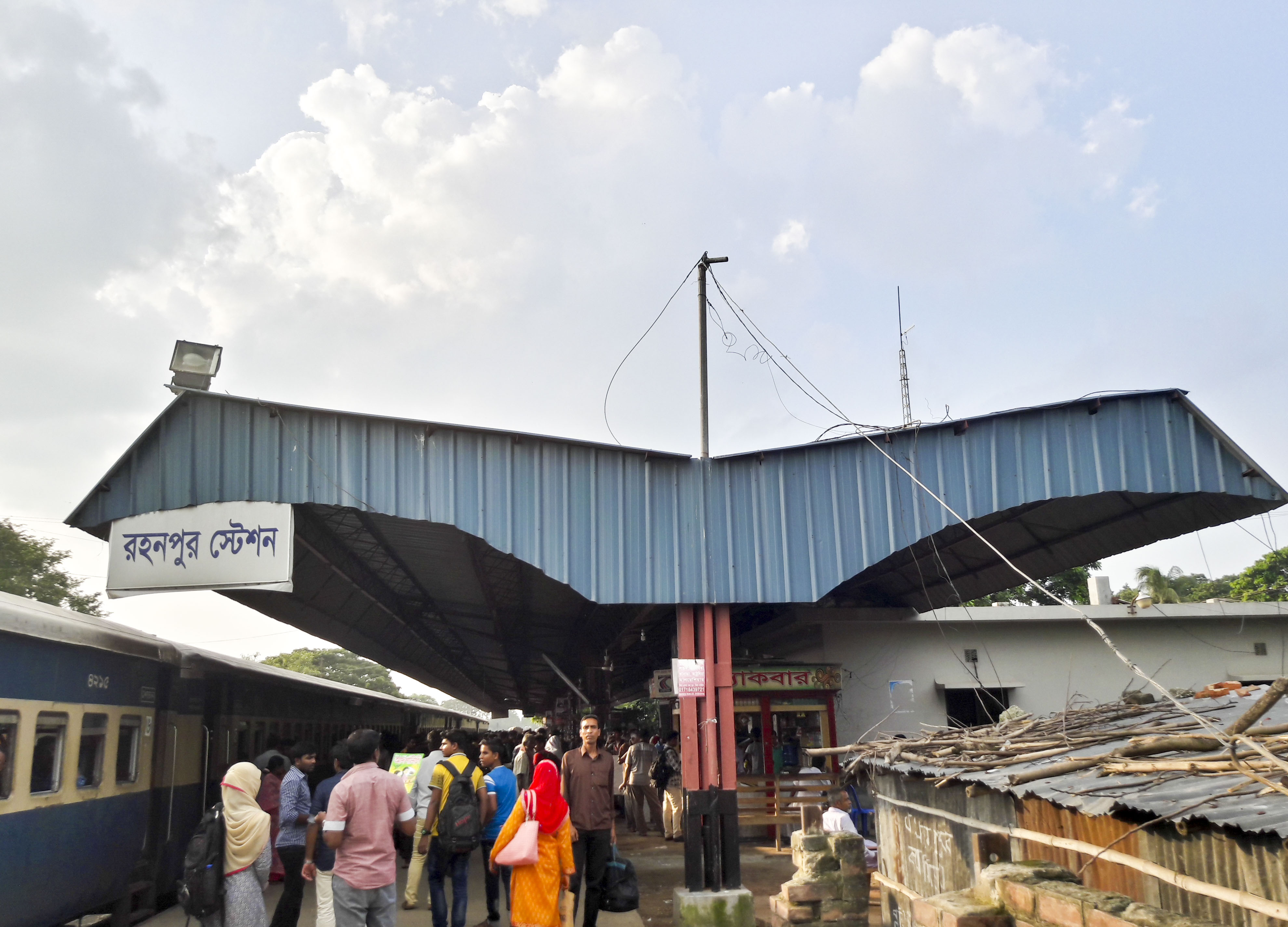 Rohanpur is a border railway station in Bangladesh, situated in Nawabganj District, in Rajshahi Division. It is a functioning railway transit point on the Bangladesh-India border .